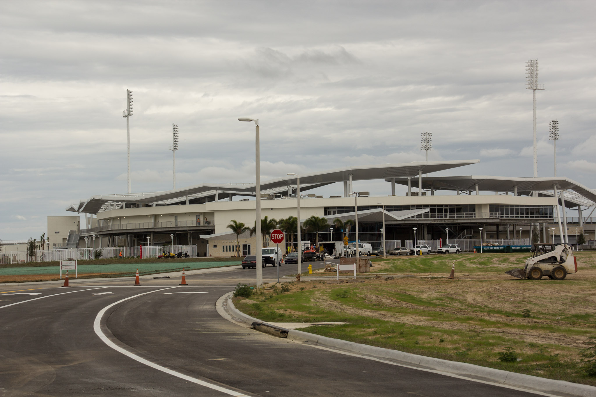 JetBlue Park (Boston Red Sox Spring Training Facility) Under Construction - February 2012